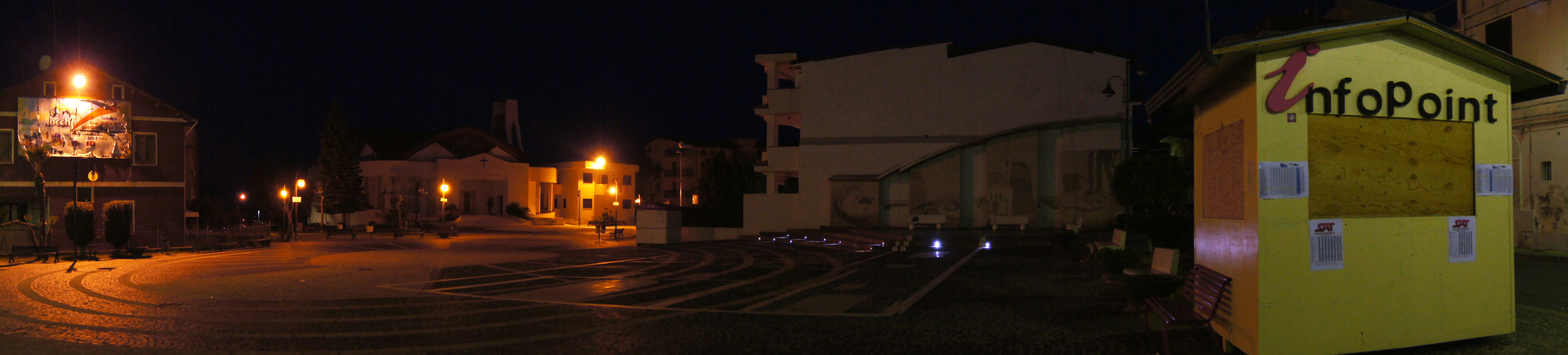 Campora San Giovanni's Square in a night vue in jan 2020.